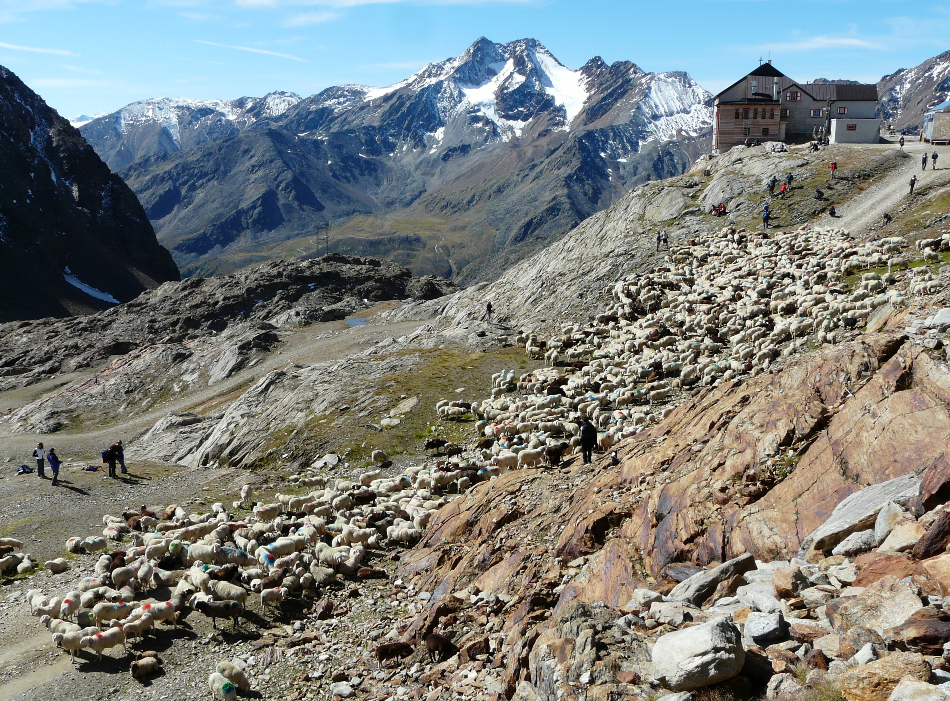 Driven sheep on Hochjoch, Schöne Aussicht, September 2010.